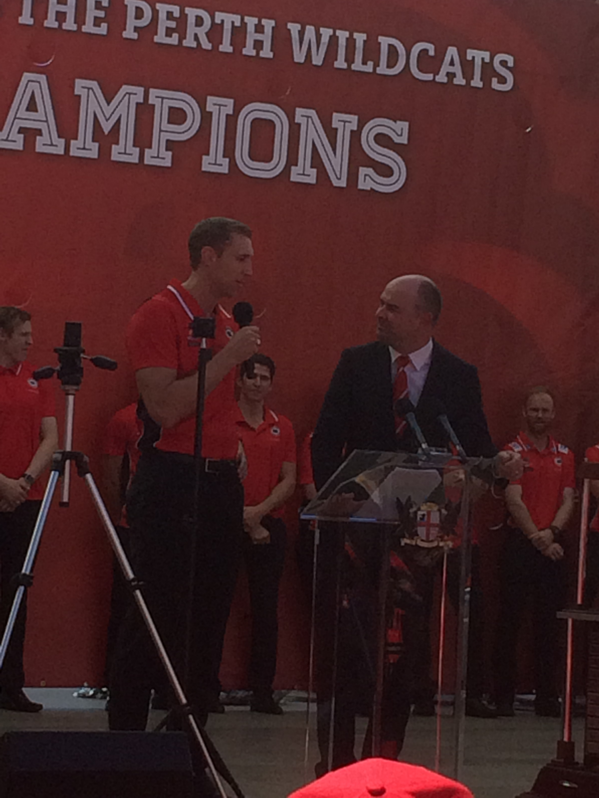 Shawn Redhage talking with Lachy Reid at the Perth Wildcats 2017 championship celebration